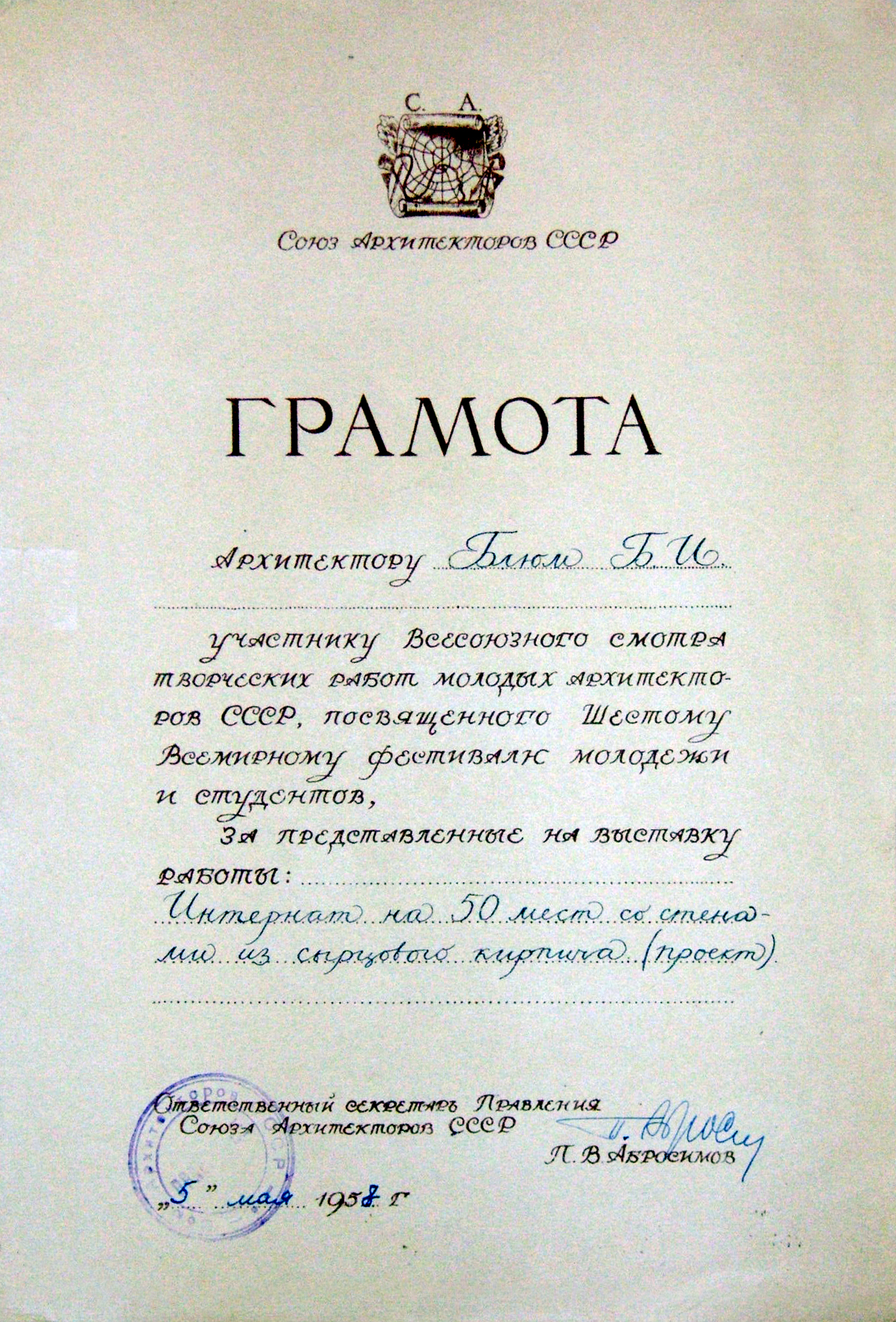 Certificate, 1958